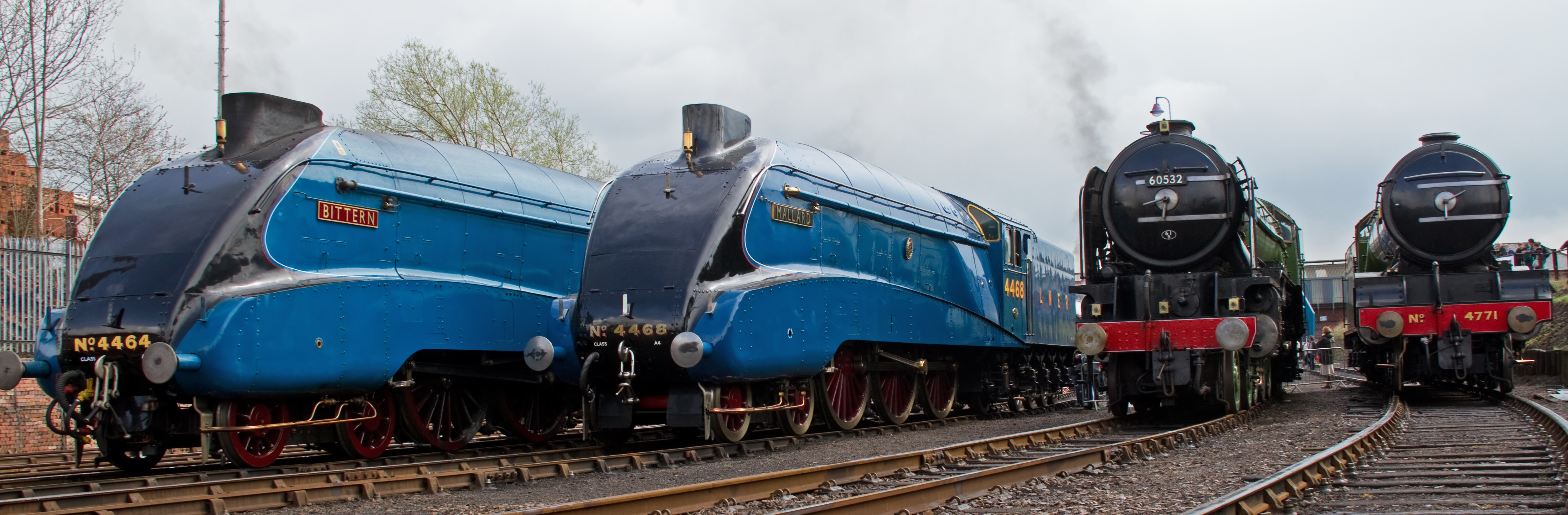 Bittern, Mallard, Blue Peter and Green Arrow